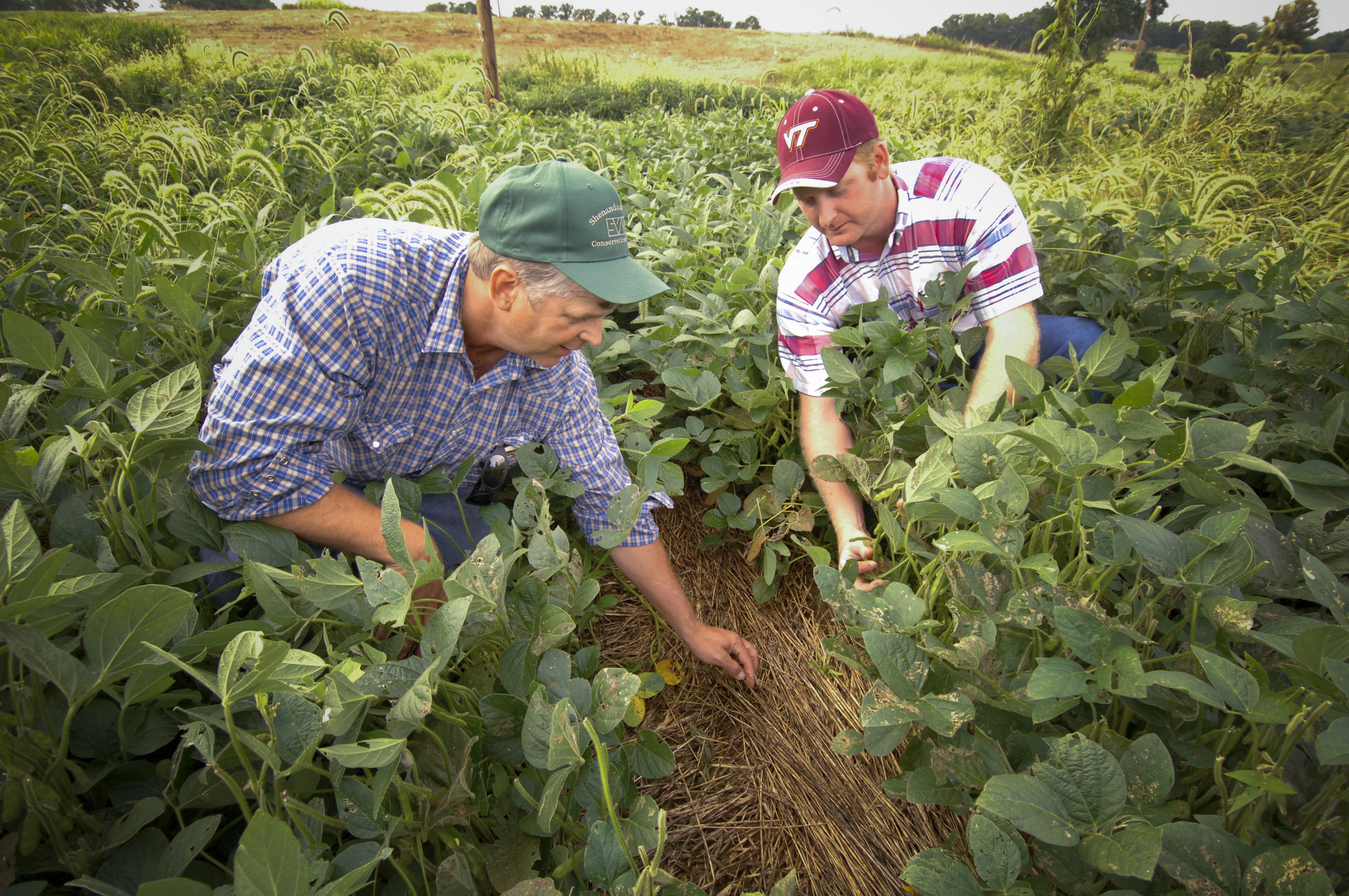 Farmers in Rockingham County, Virginia check the results of no-till farming in their fields on September 9, 2008, as part of their participation in the U.S. Department of Agriculture (USDA) Natural Resource Conservation Service (NRCS) Chesapeake Bay Watershed Initiative (CBWI).